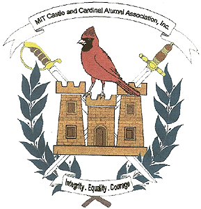 Official Logo of The Mapua Institute of Technology Castle & Cardinal Alumni Association, Inc.